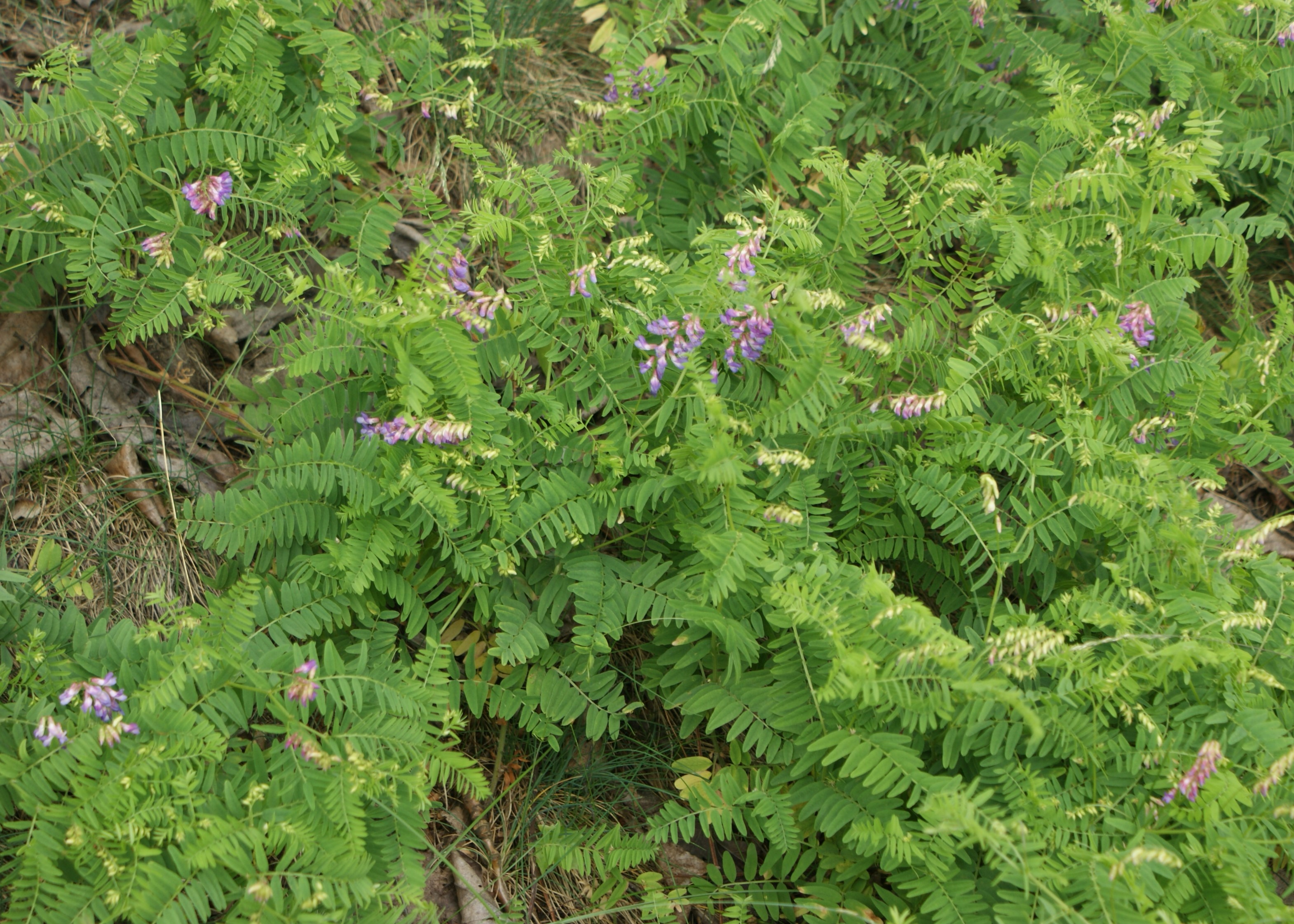 Vicia cassubica in Wyczechowo near Kartuzy, N Poland